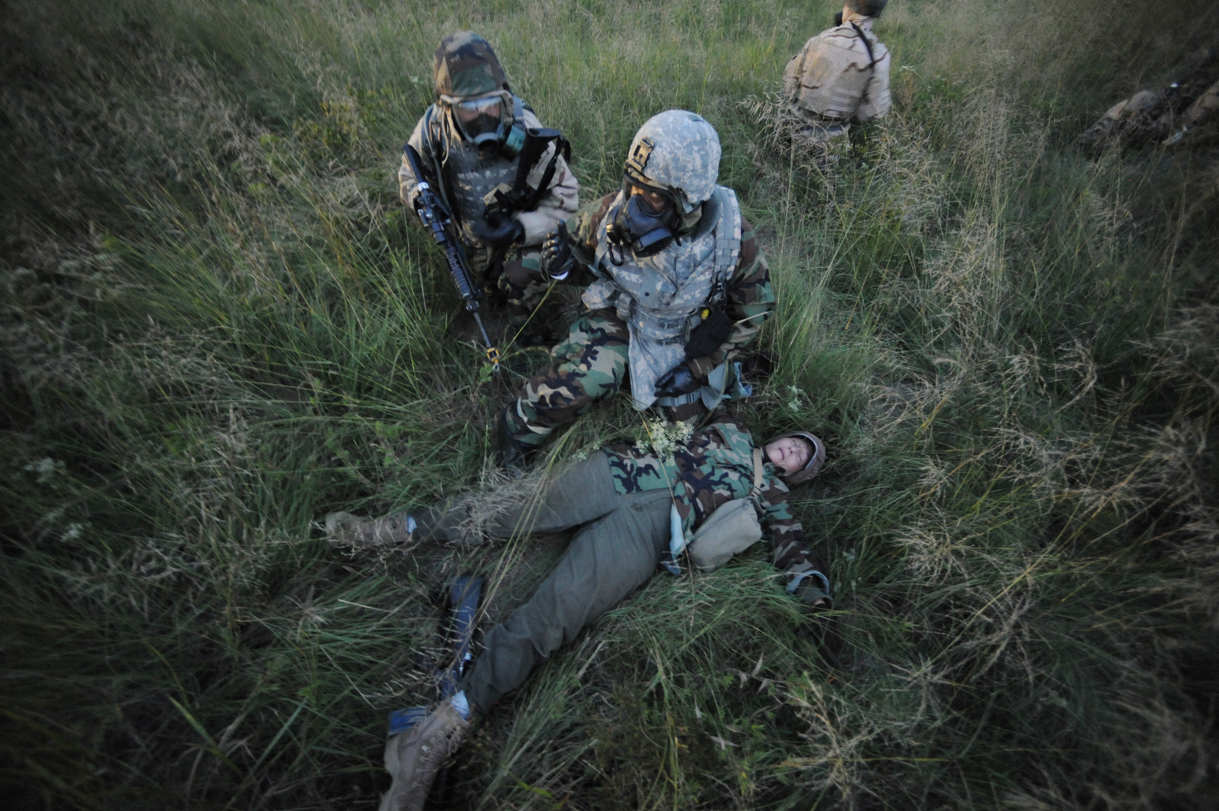 U.S. Airmen with the 633rd Air Base Wing participate in a mock base attack during exercise Eagle Flag at Joint Base McGuire-Dix-Lakehurst, N.J., Aug. 20, 2011. Eagle Flag is an annual exercise executed by the U.S. Air Force Expeditionary Center Expeditionary Operations School at Joint Base McGuire-Dix-Lakehurst. The exercise is designed to provide U.S. forces with an environment to exercise the knowledge and skills required for any type of forward operation through scenarios tailored to challenge combatant commanders and operations in a deployed environment.